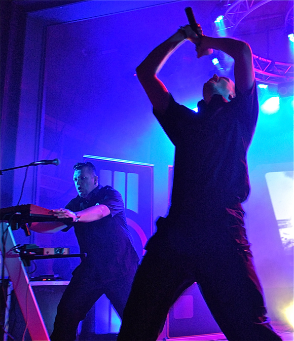 Cryo (Martin Rudefelt and Torny Gottberg) perform during the 2010 Arvikafestival